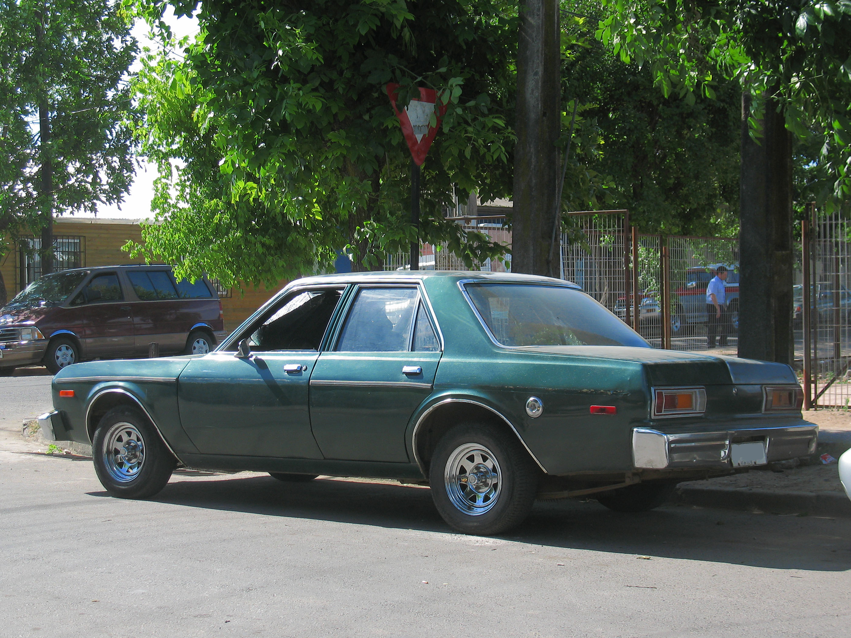 Plymouth Volare 1977